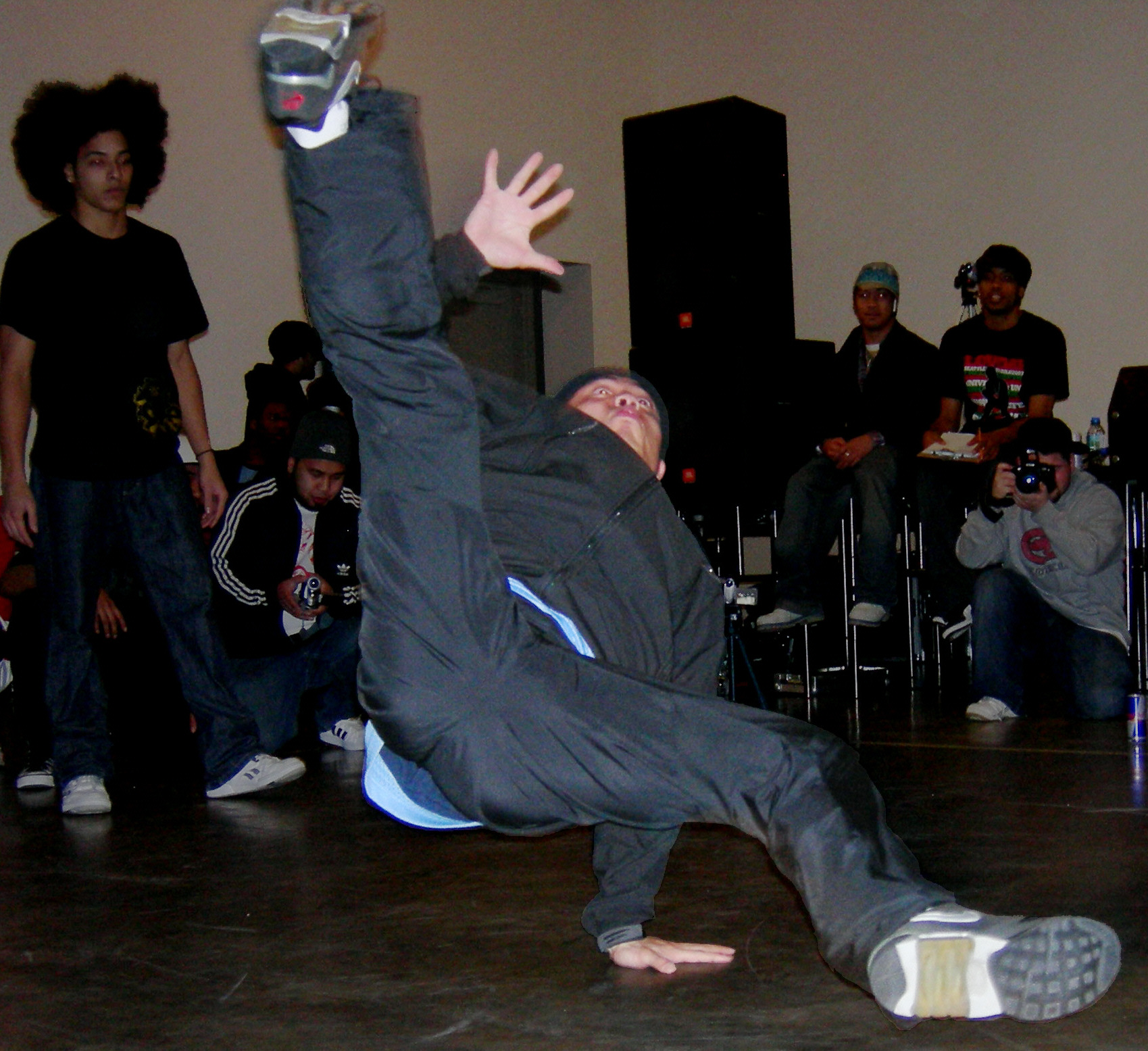 Dance competition. Third Anniversary of Zulu Nation Seattle Celebration of Hip Hop Culture, part of Festival Sundiata, a Festál event at Seattle Center, Seattle, Washington.